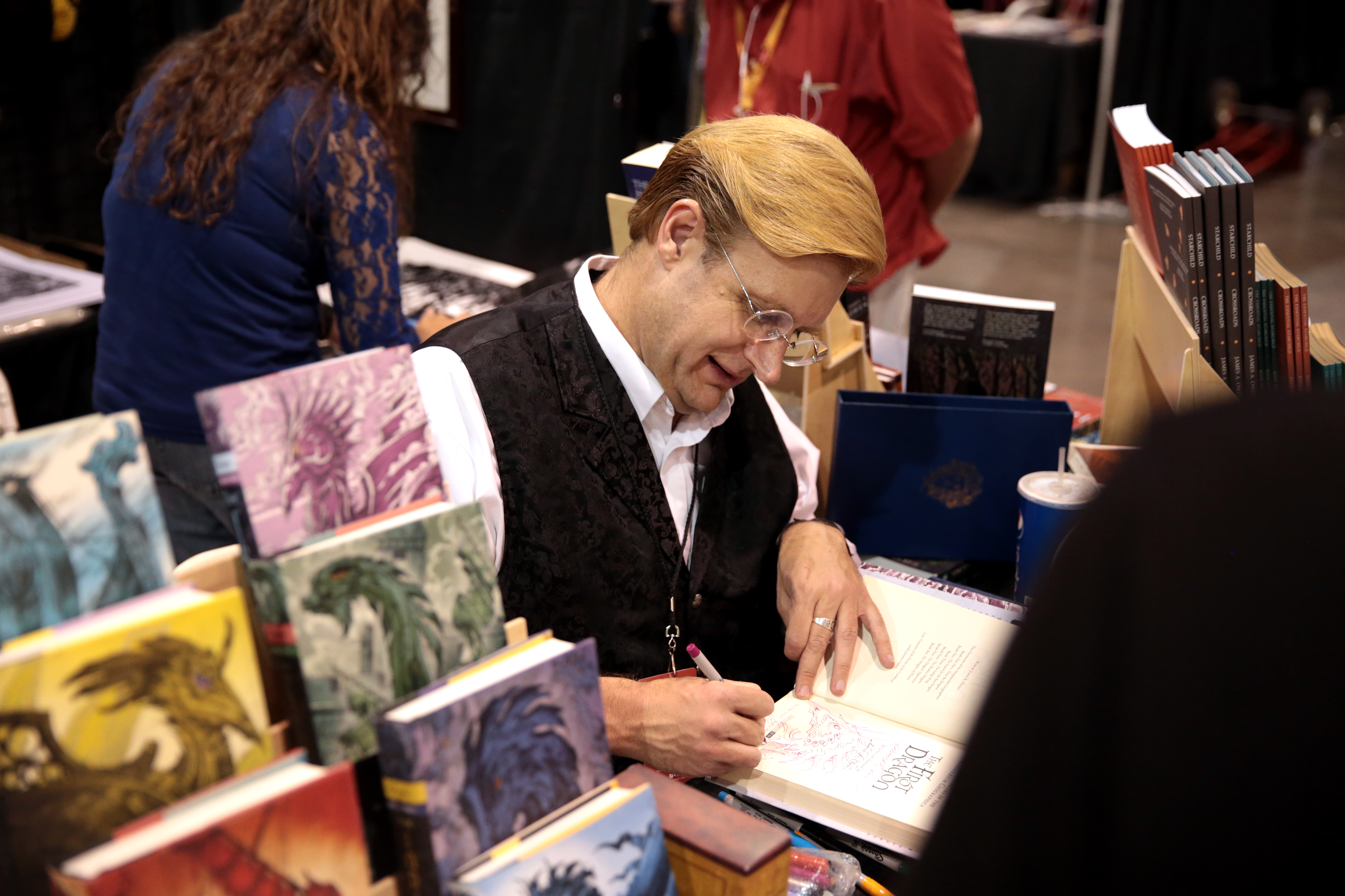 James A. Owen speaking with attendees at the 2017 Phoenix Comicon at the Phoenix Convention Center in Phoenix, Arizona.